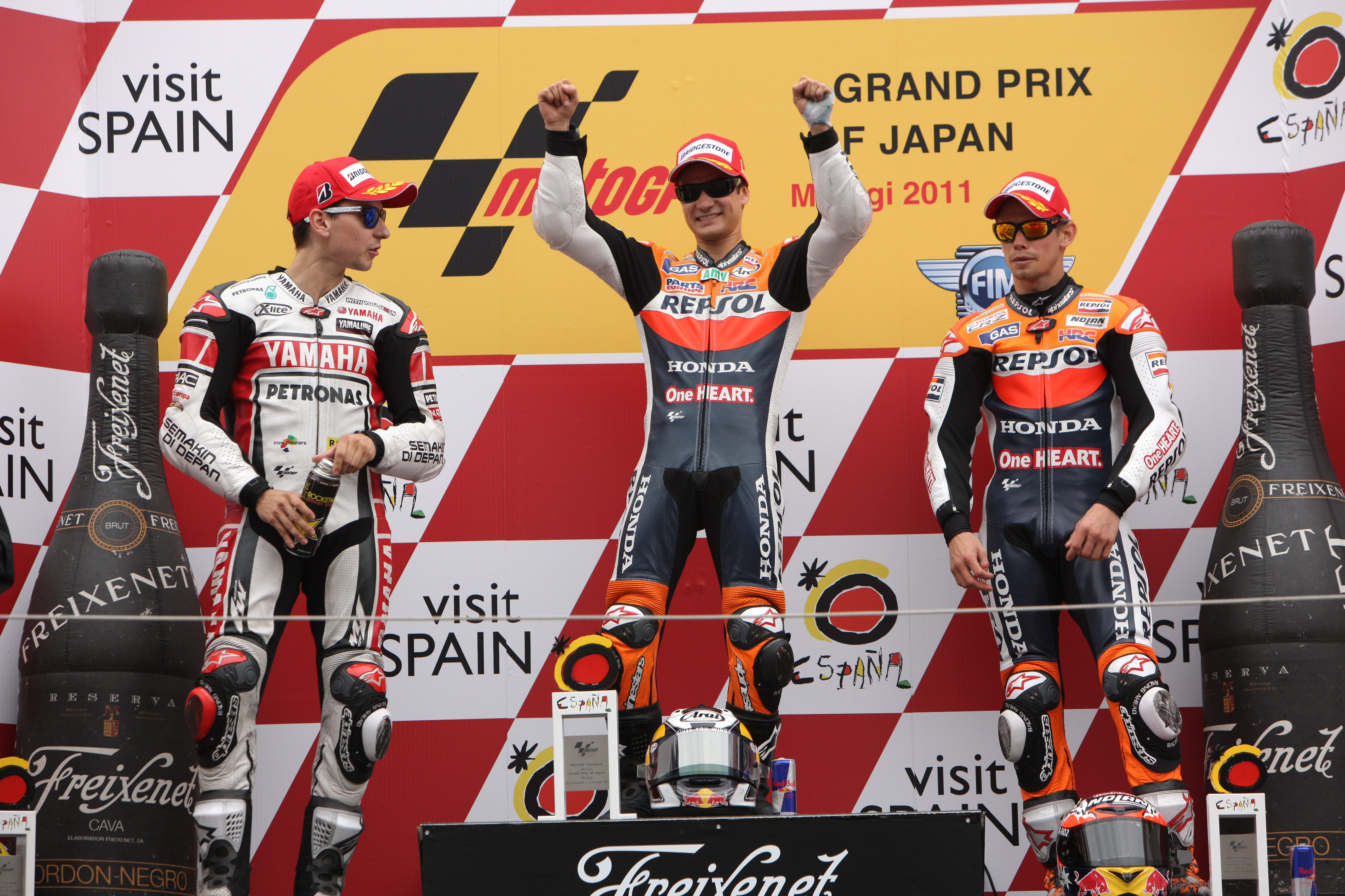 Jorge Lorenzo, Dani Pedrosa and Casey Stoner, celebrating on the podium after finishing in second, first and third position at the 2011 Japanese Grand Prix.